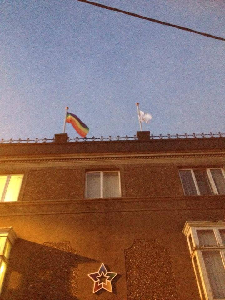 A photo of the Pride Flag in UCC being flown atop the UCC Students Union building